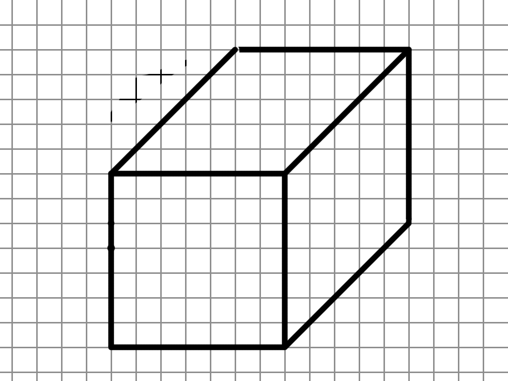 الصورة النهائية عند رسم المكعب بطريقة الرسم بزاوية 45